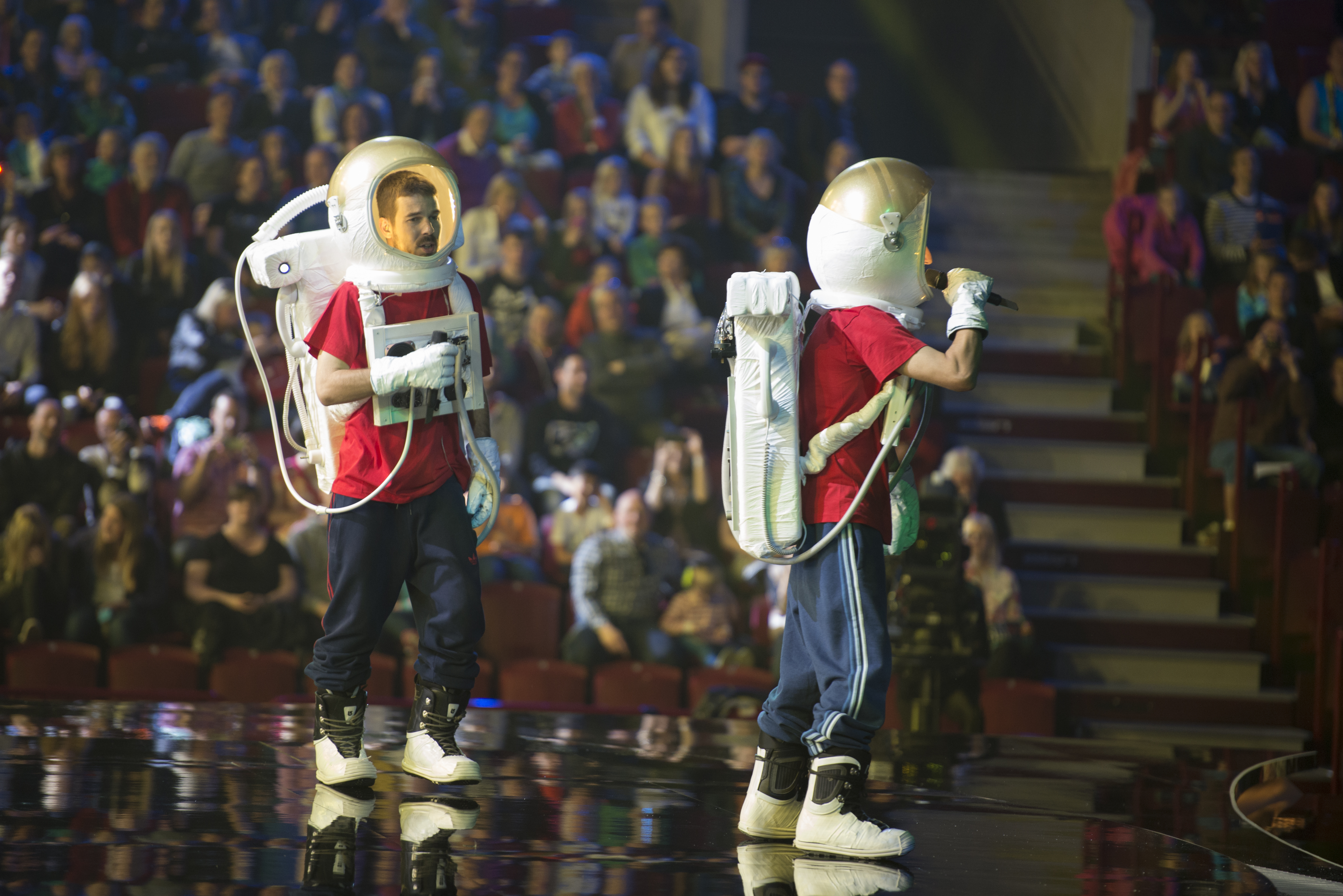 Who See representing Montenegro with the song "Igranka" (Игранка) during the third dress rehearsal of the first semi final of the Eurovision Song Contest 2013 in Malmö. (Help translate this text)